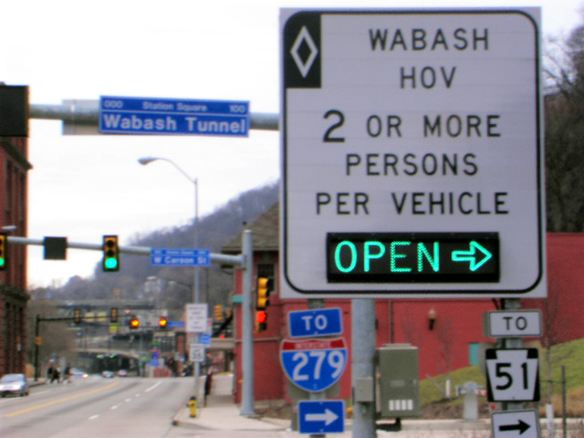 Wabash Tunnel signage on West Carson St in Pittsburgh, PA.